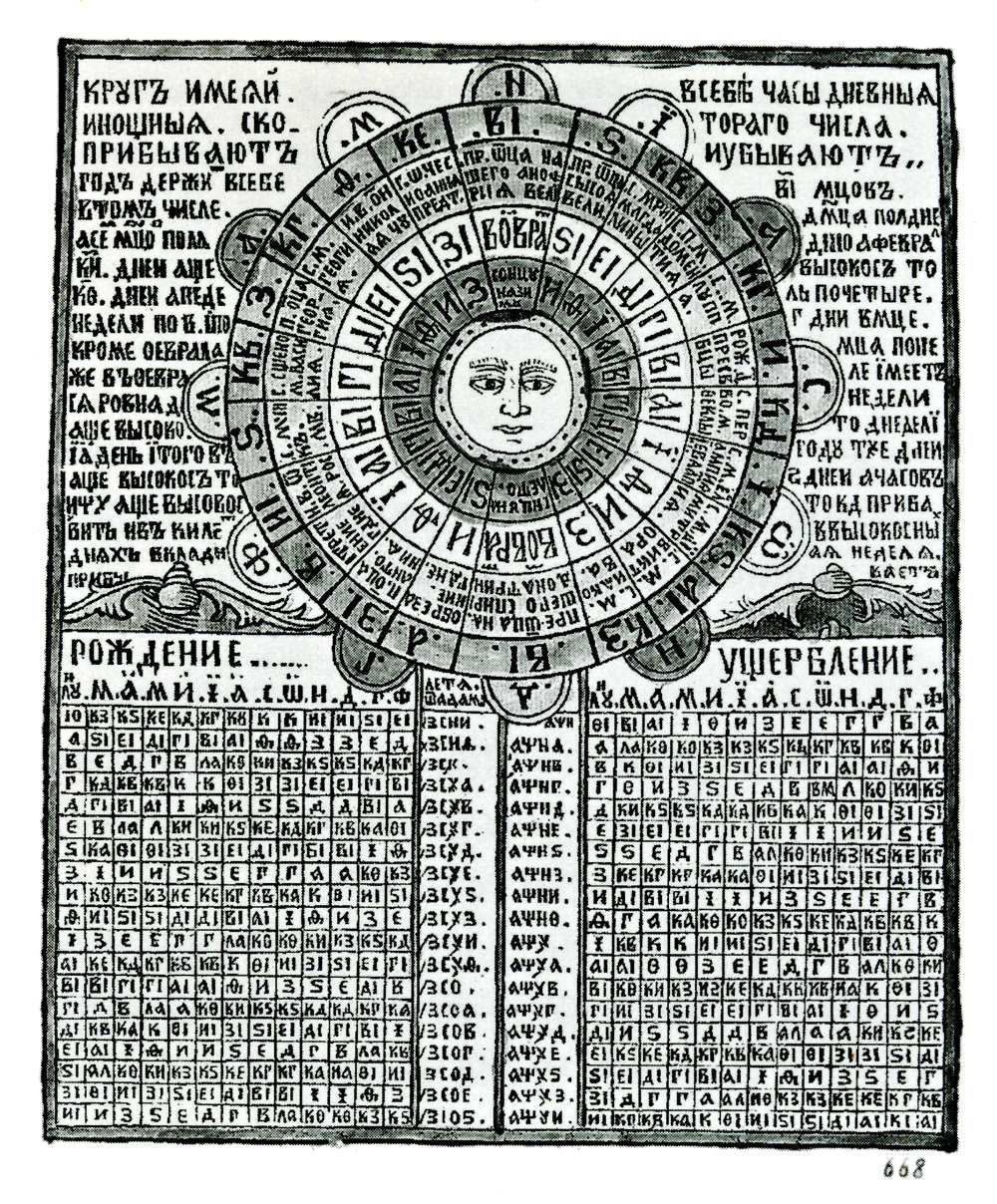 Mid-18th century lubok calendar of moon phases, Russia